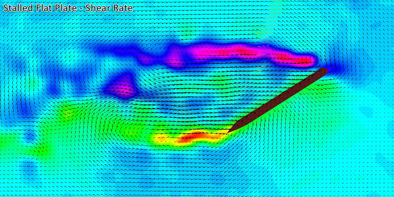 PIV analysis of a stalled flat plate. Analyzed with PIVlab.